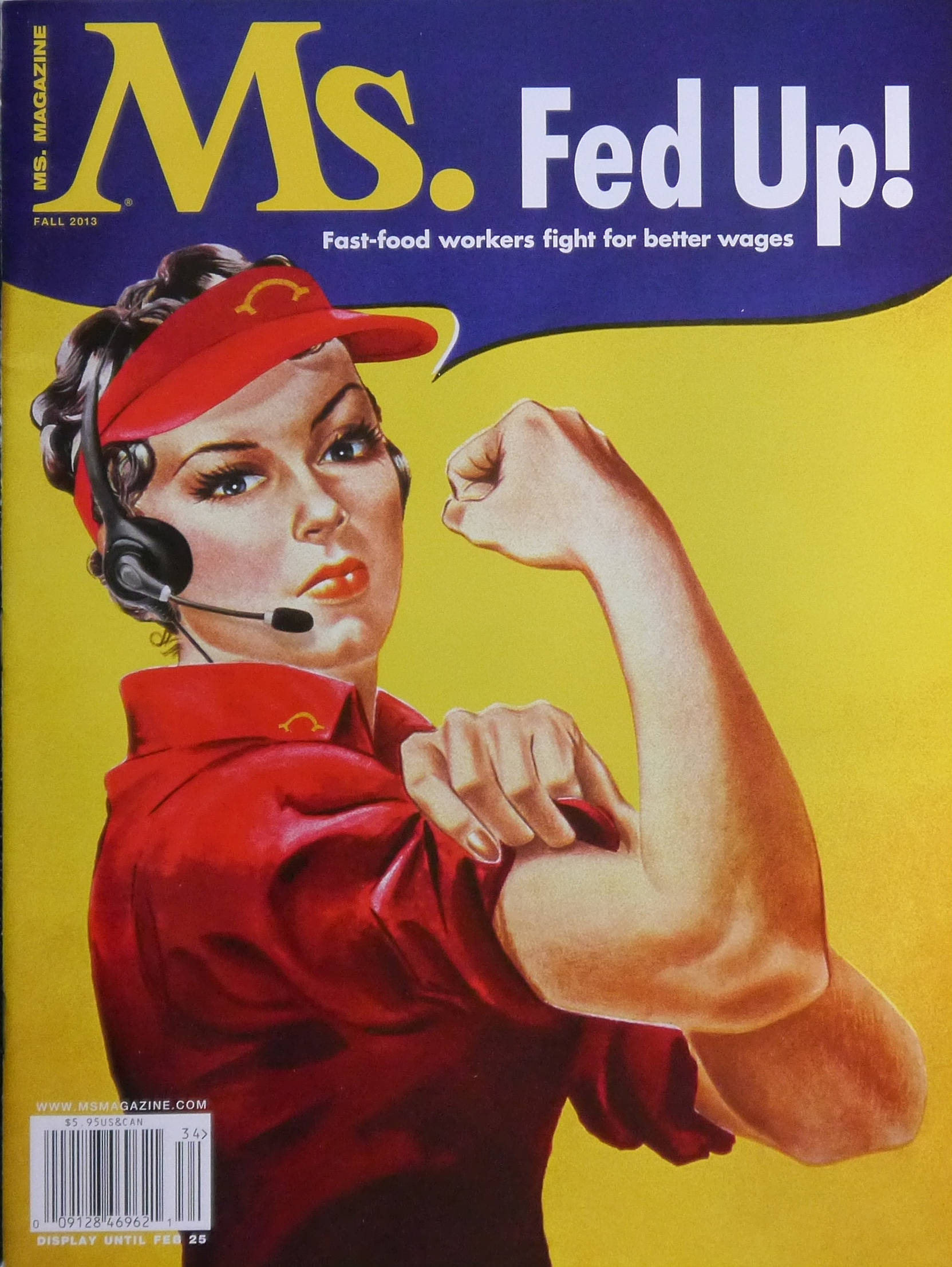 Ms. magazine, Fall 2012 fast food workers issue